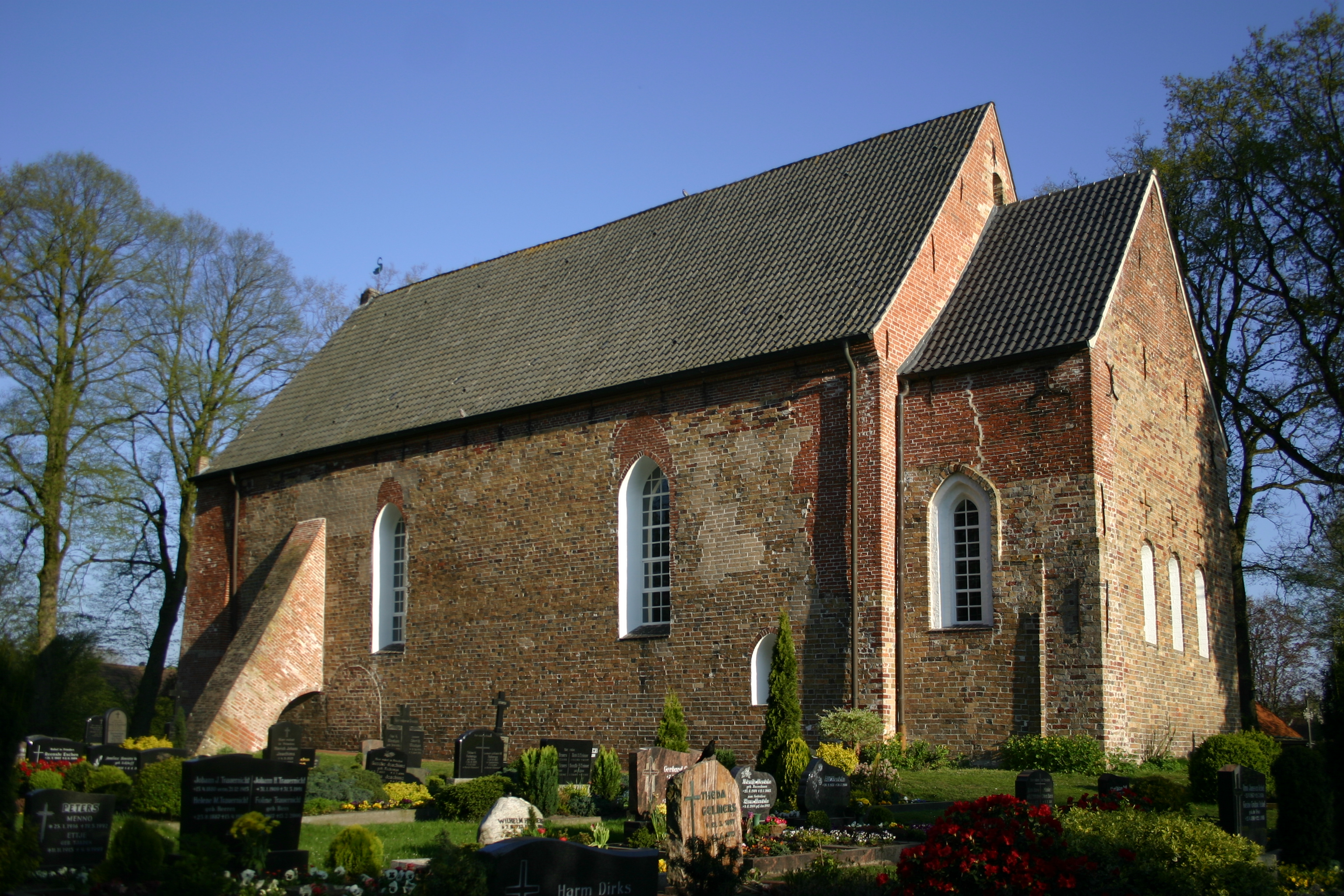 Historic church in Aurich-Oldendorf, community of Großefehn, district of Aurich, East Frisia, Germany